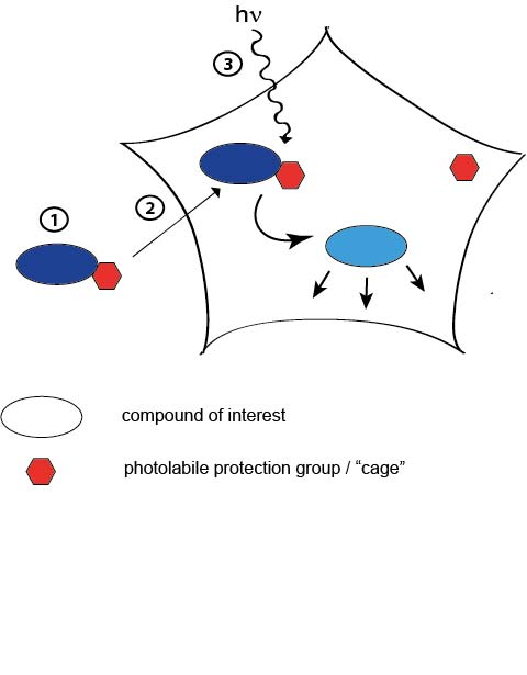 This figure illustrates the worksflow of working with caged compounds inside living cells. First, a protection group is (chemically) added to the compound of interest. This protected compound is then added to the cells (sometimes special care has to be taken for making sure it crosses the plasma membrane). Finally, the protection group is removed by a flash of light (usually a laser line on the microscope). The compound is now in its active configuration and its effect on cellular signalling can be observed